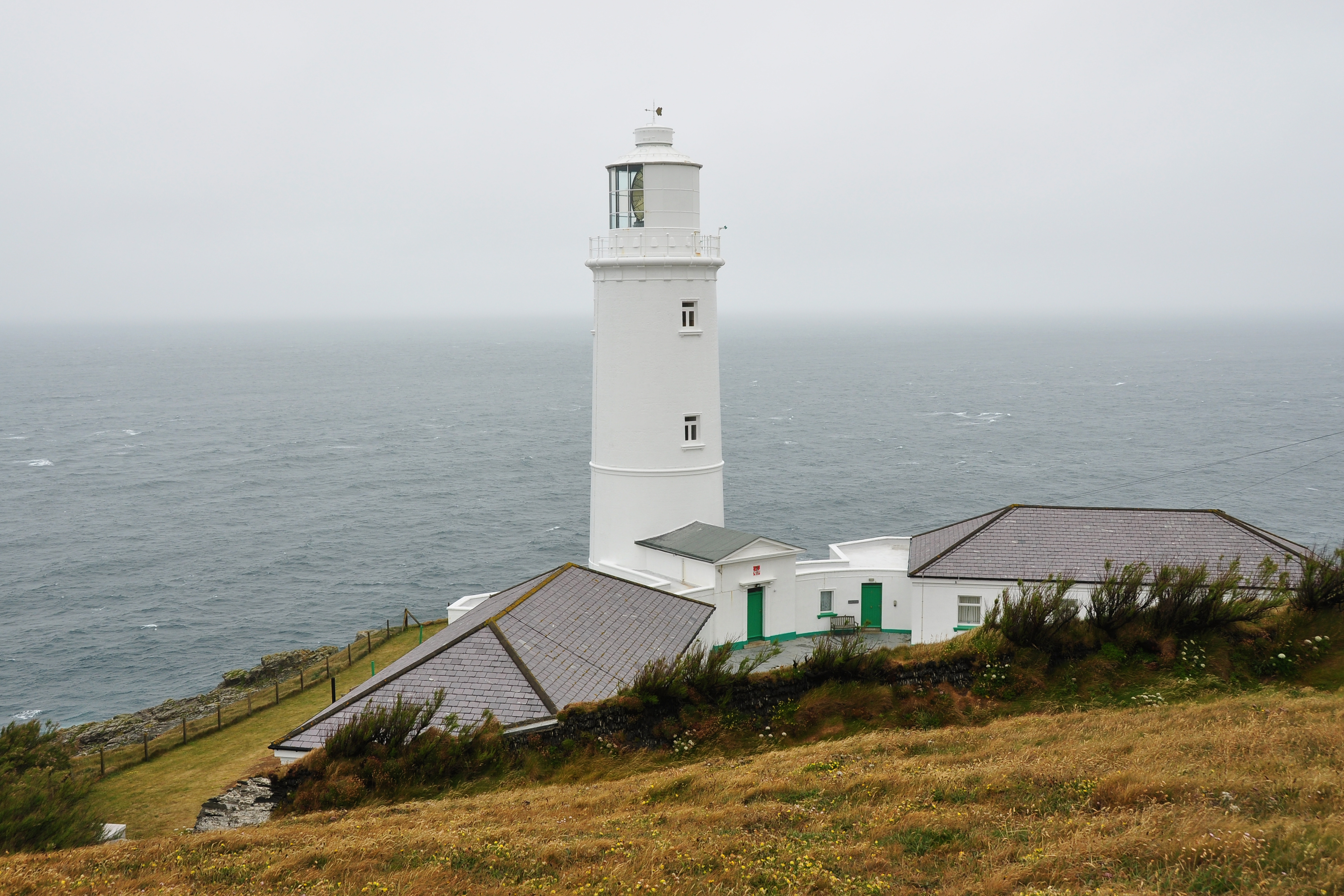 Trevose lighthouse on the North Coast of Cornwall.